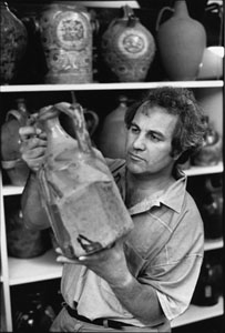 Bernard Crettaz